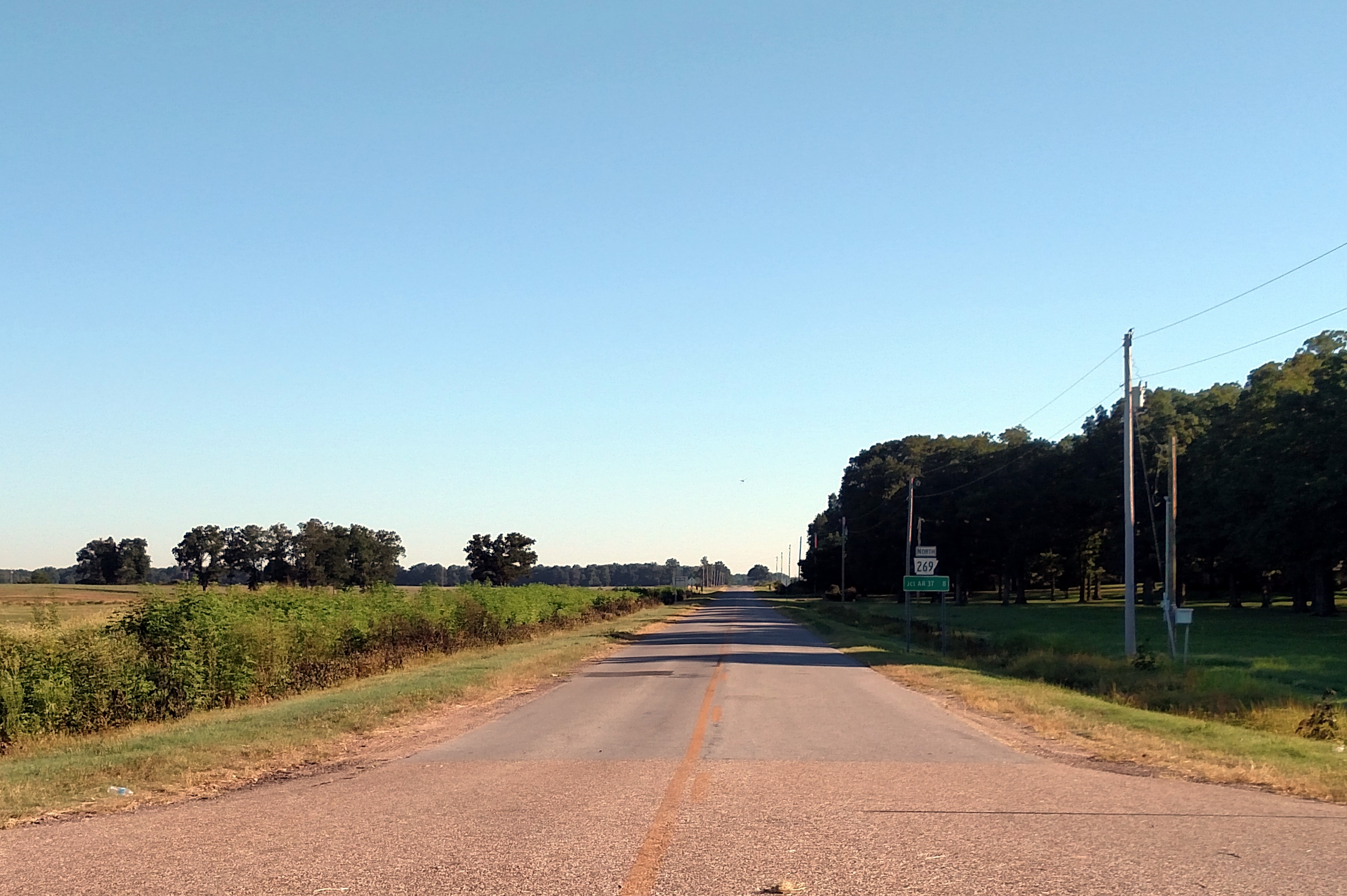 Highway 269 as seen from Highway 64